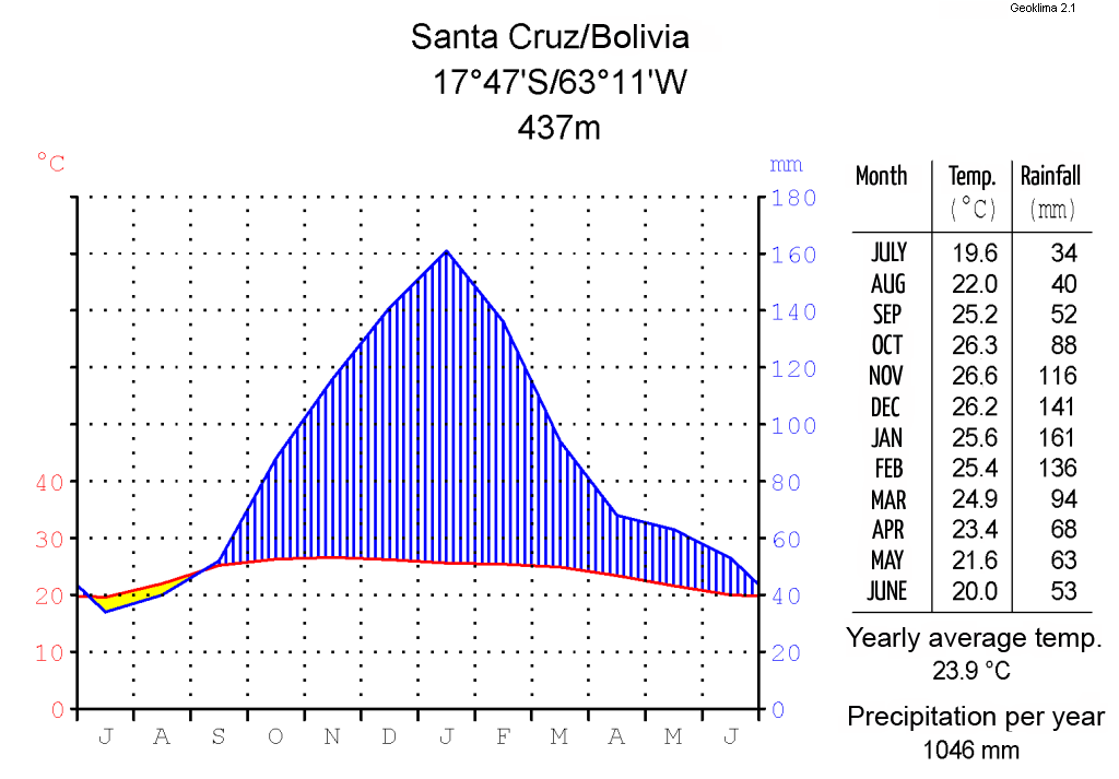 climate chart in the format by Walther and Lieth, metric, °Celsisus and millimeters, made with Geoklima 2.1